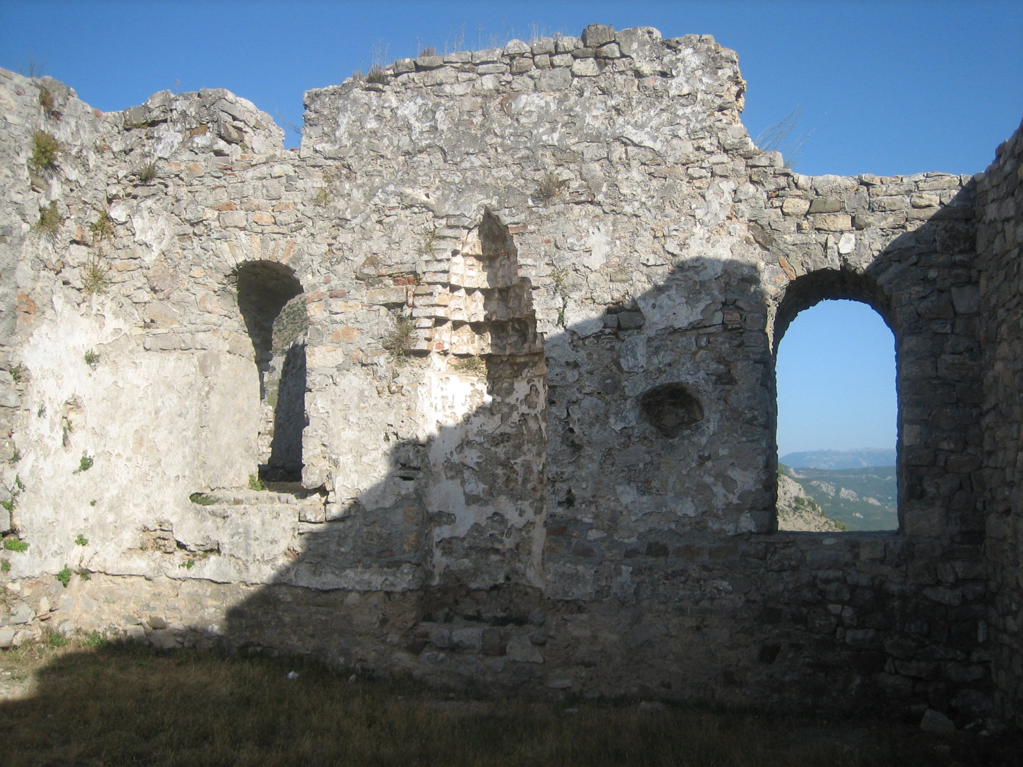 Inside Lezhë Castle, Lezhë, Albania